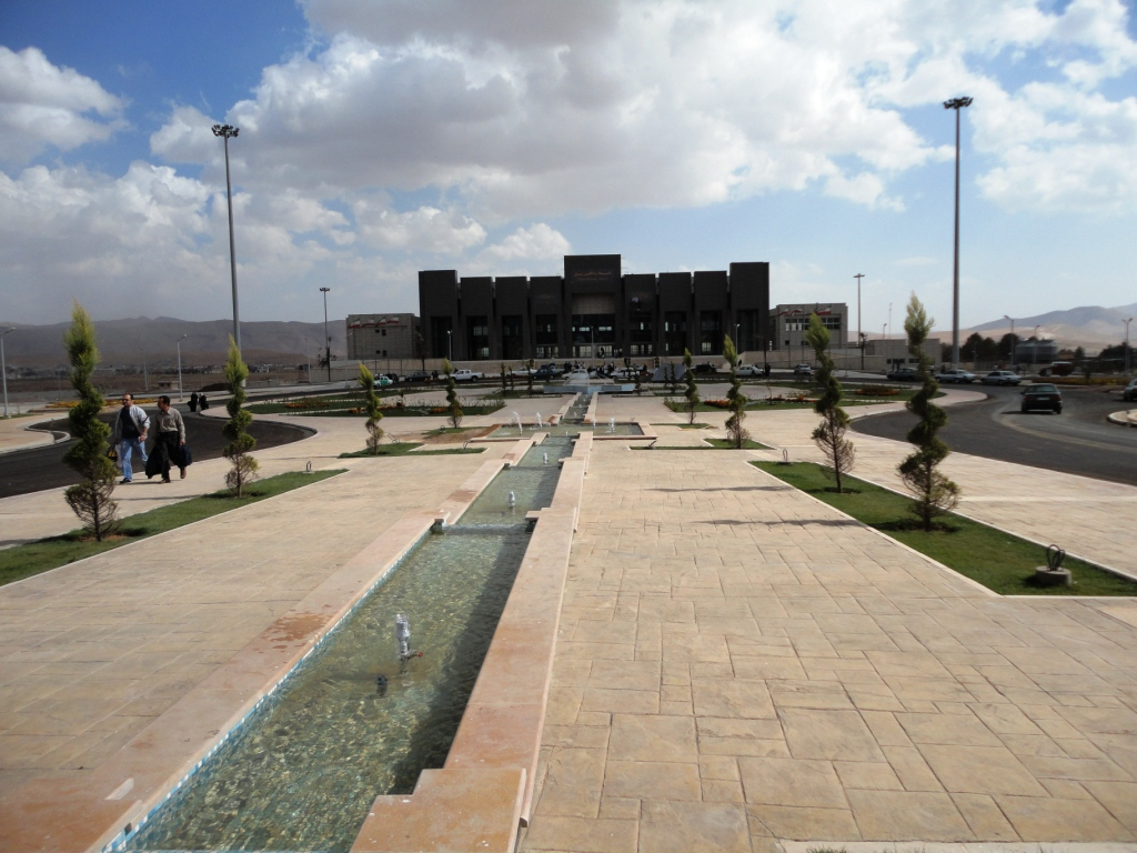 shiraz Train station